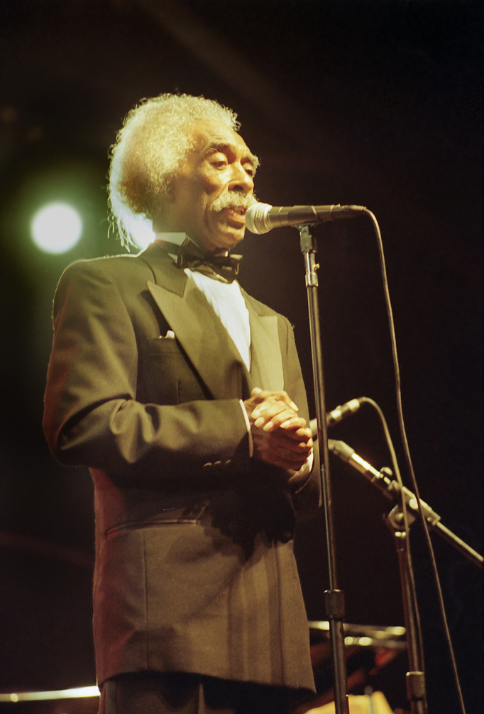 Gerald Wilson